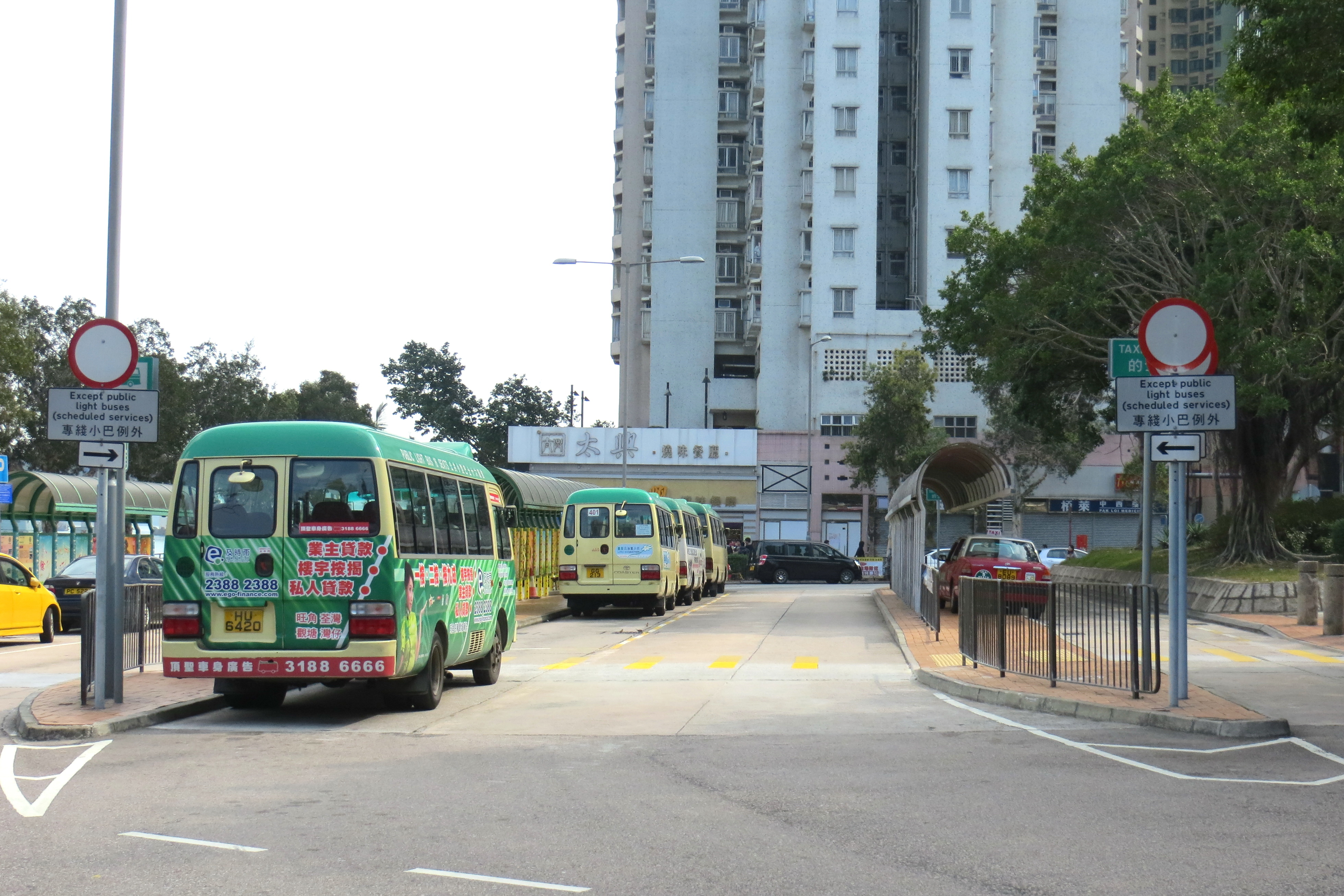 Greenfield Garden green minibus terminus, Tsing Yi, Hong Kong.